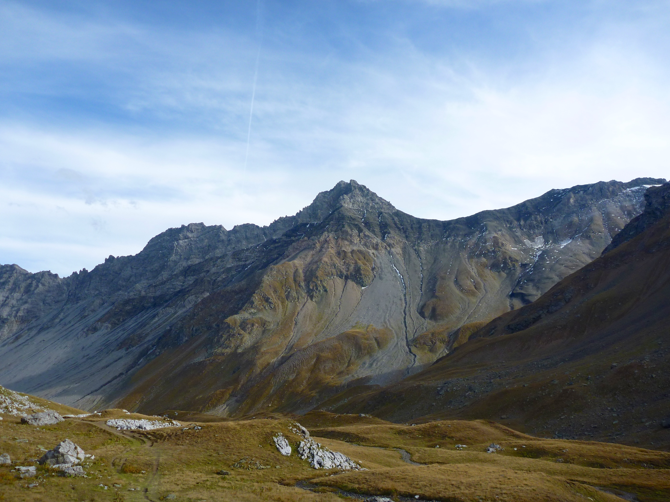 Dolomite peak "Erzhorn" (Arosa/Swizerland) seen from Schafälpli